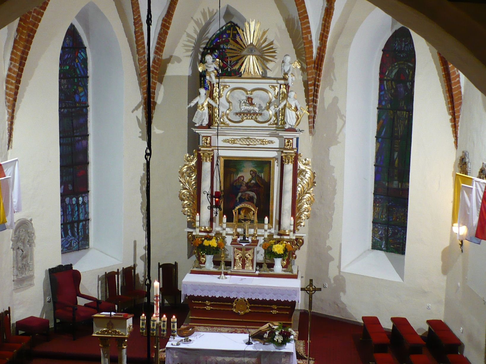 St. Anne's Church in Szczaniec, Lubusz Voivodeship